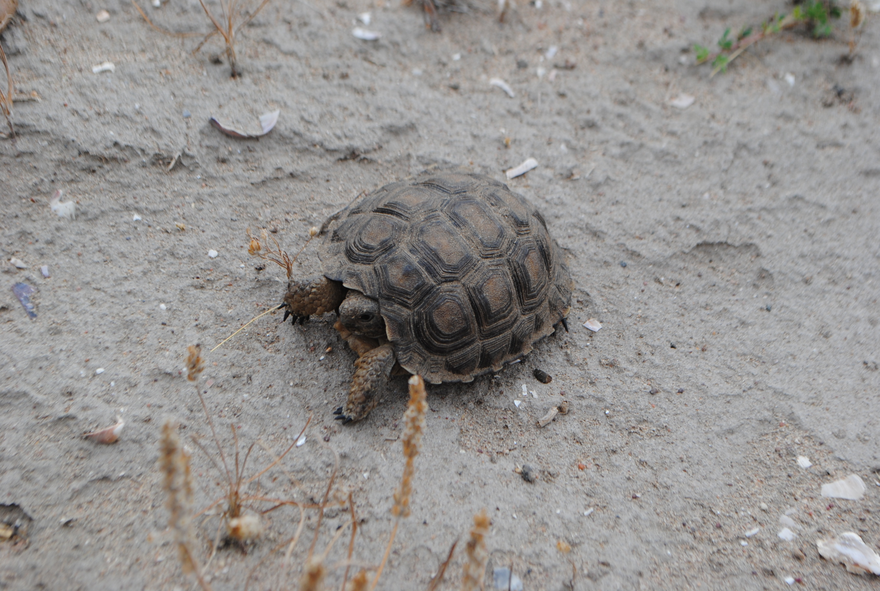 Chelonoidis chilensis known as "Tortuga terrestre patagónica" young specimen, photo taken 8 km south of Las Grutas, Rio Negro Province, Patagonia Argentina